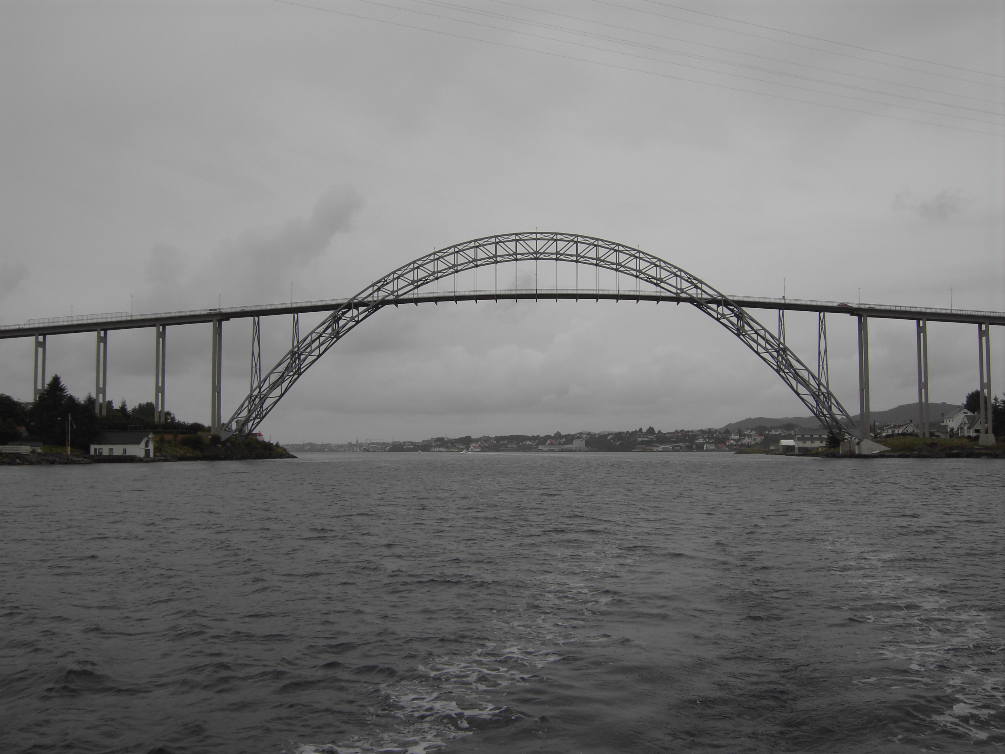 Karmsund bridge in Karmøy near Haugesund, Norway, links Karmøy island to the mainland